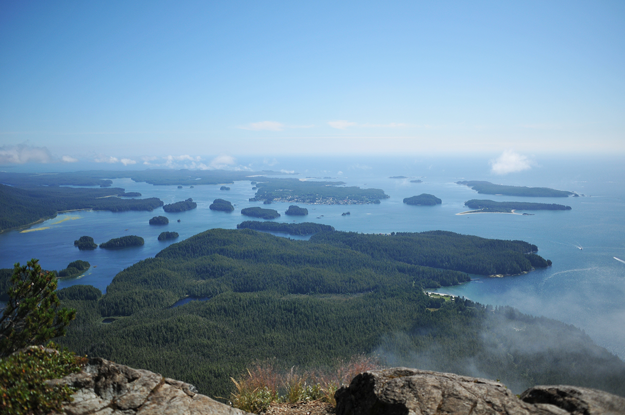 View looking west from the summit of Lone Cone. The town of Tofino can be seen in the centre of the photograph.